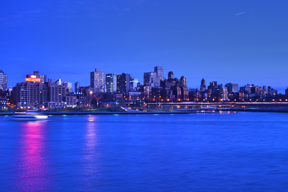 Taken from South Street Seaport.